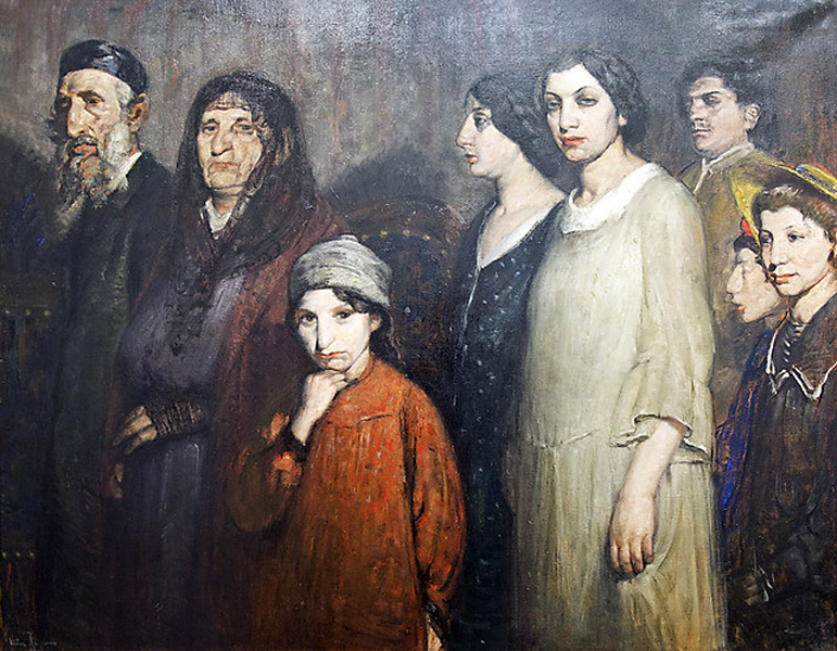 The Emigrants